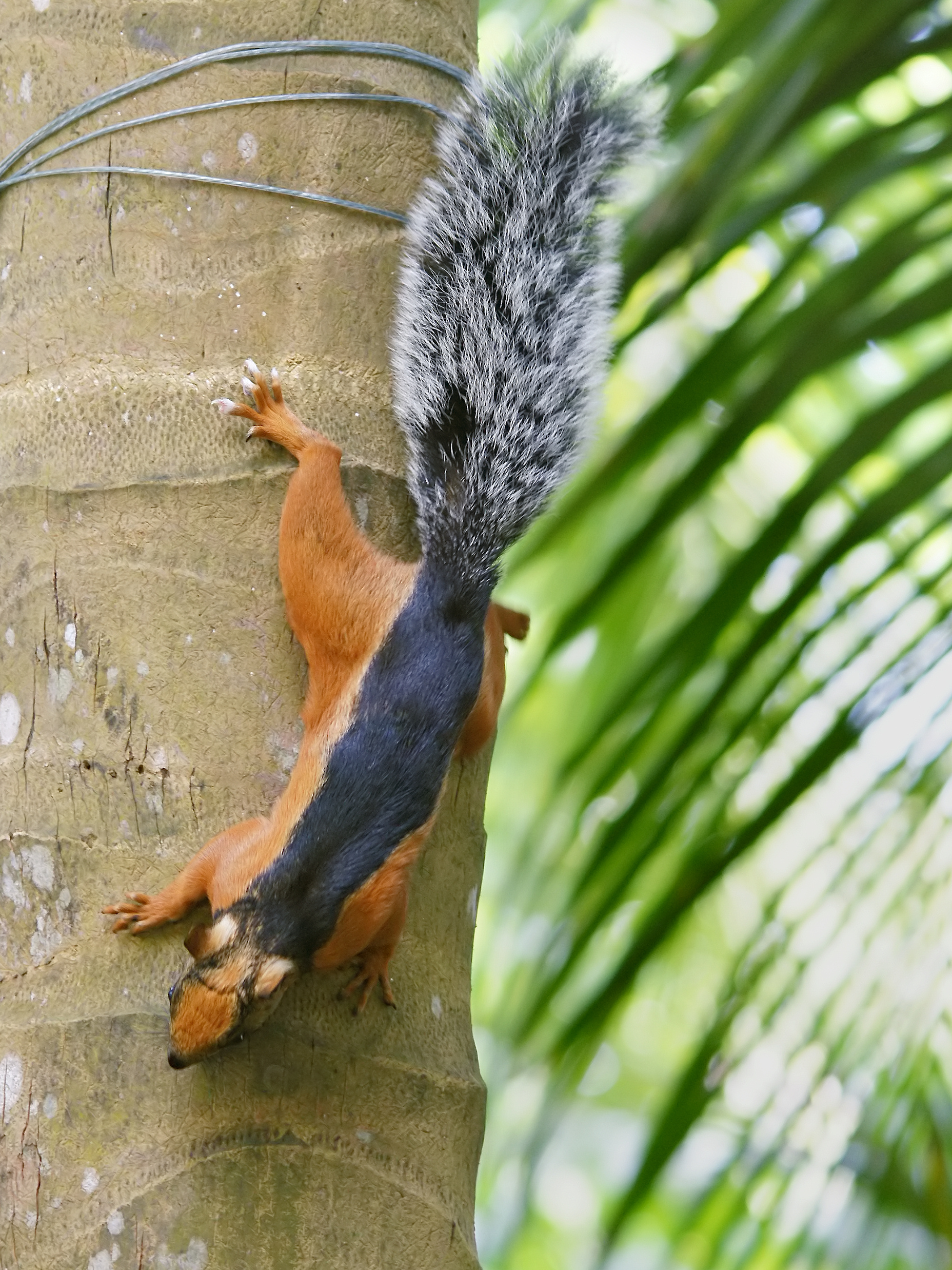 Variegated Squirrel at Montezuma, Nicoya Peninsula, Costa Rica.